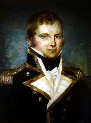 Painting of Sir Robert Barrie